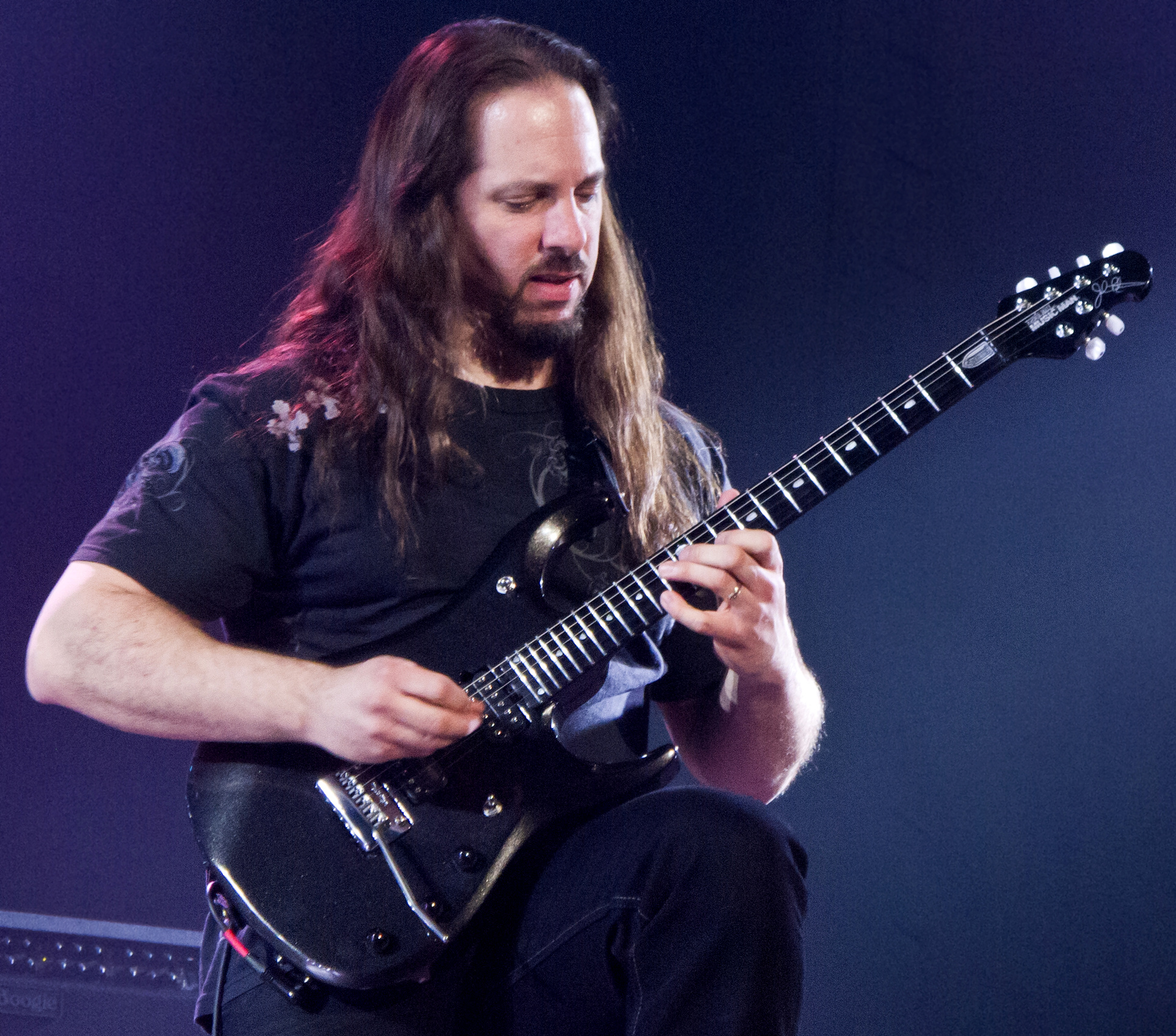 John Petrucci in concert with Dream Theater in 2012.